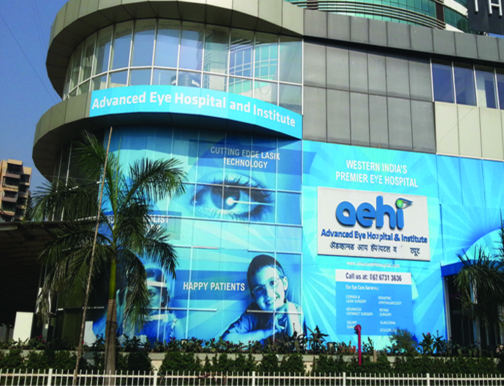 Entrance of Advanced Eye Hospital & Institute